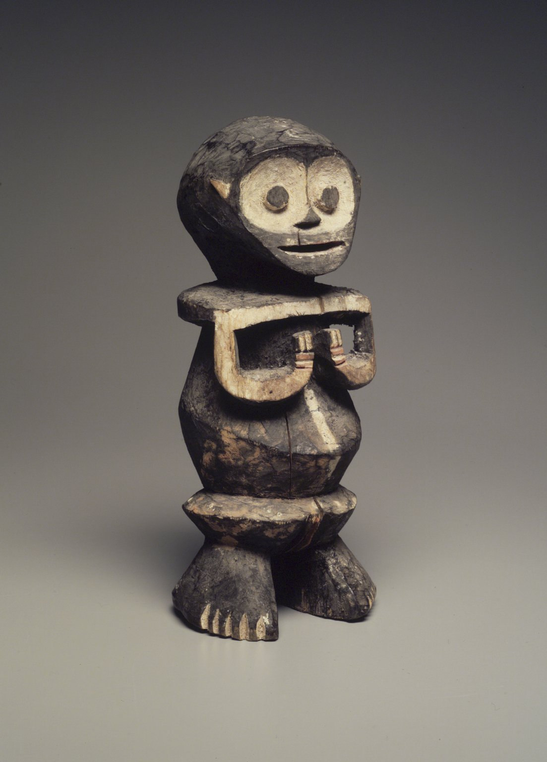 Wooden ancestor figure. This figure has a heart shaped face with enlarged concave eye sockets, shelf like shoulders, a stomach and an abdomen which comes to points at their centers and enlarged feet. There are traces of white and reddish-orange coloring throughout. CONDITION: Checks throughout the genital area, stomach, left side and collar bone.